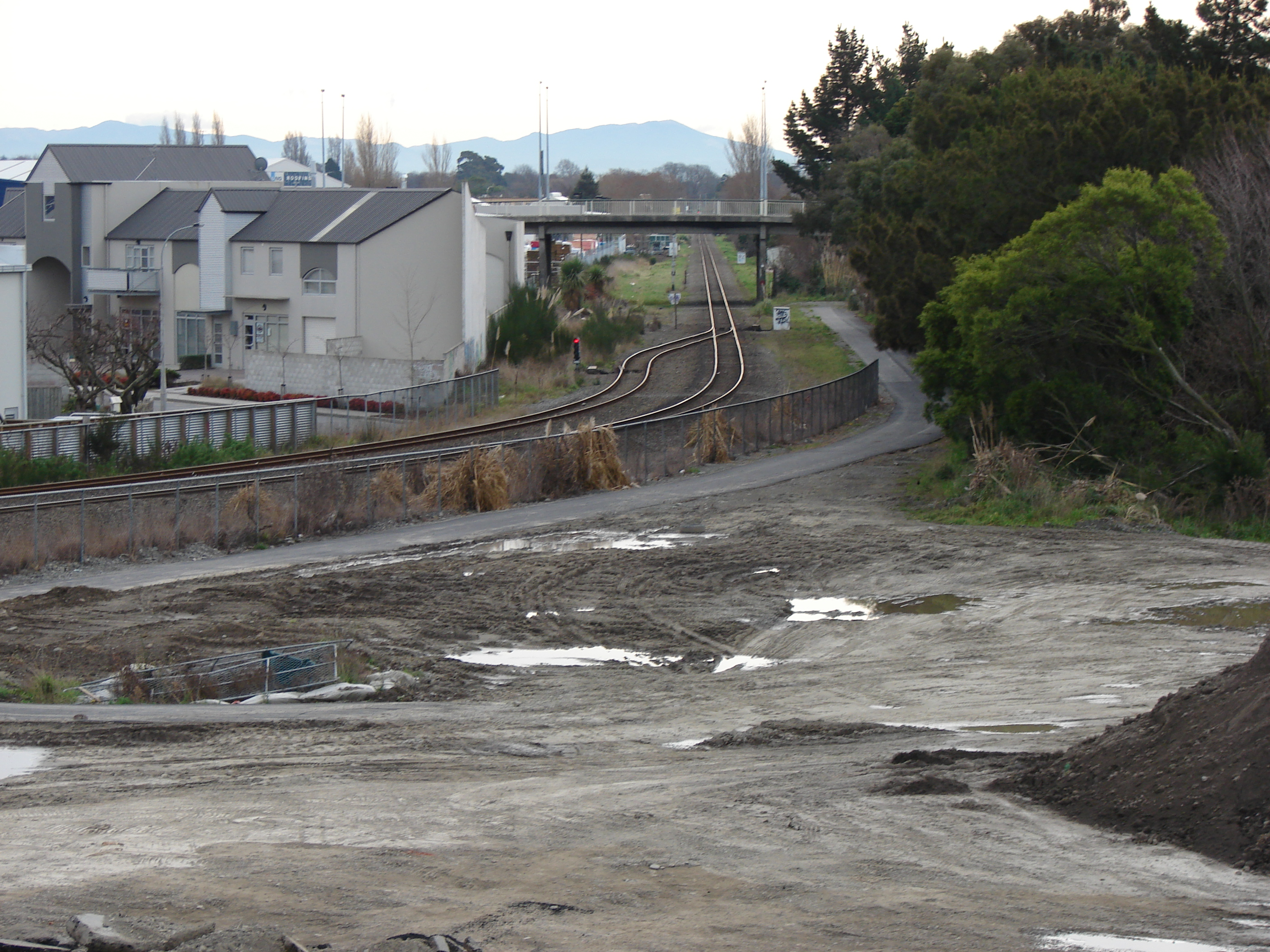 Main North Line, heading under the old Blenheim Road overbridge. To the left, the line heads under the new Blenheim Road overbridge to Christchurch railway station. Photographed by Matthew25187 on 2007-07-28.